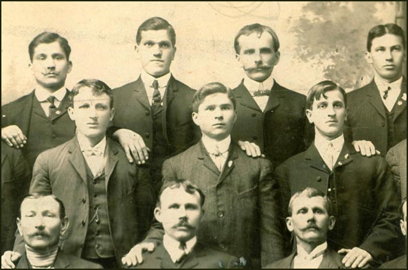 Croatian men's club in Joliet. Back row, from the left, Kuzma Tijan, husband of Josipa Juricic, and 3rd from the left, Mate Mikulicic. Date about 1910?